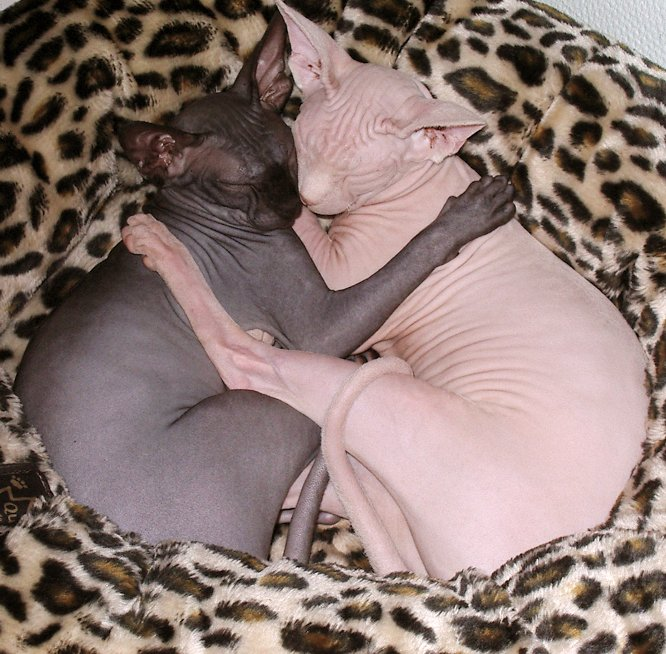 2 Sphynx females sleeping. White – Lamina, Black – Nonillion.